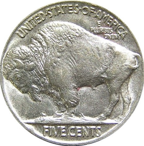 1935 Buffalo Nickel, photo taken by user Bobby131313 with an Olympus C-750 Ultra Zoom Bobby 04:04, 21 September 2006 (UTC)